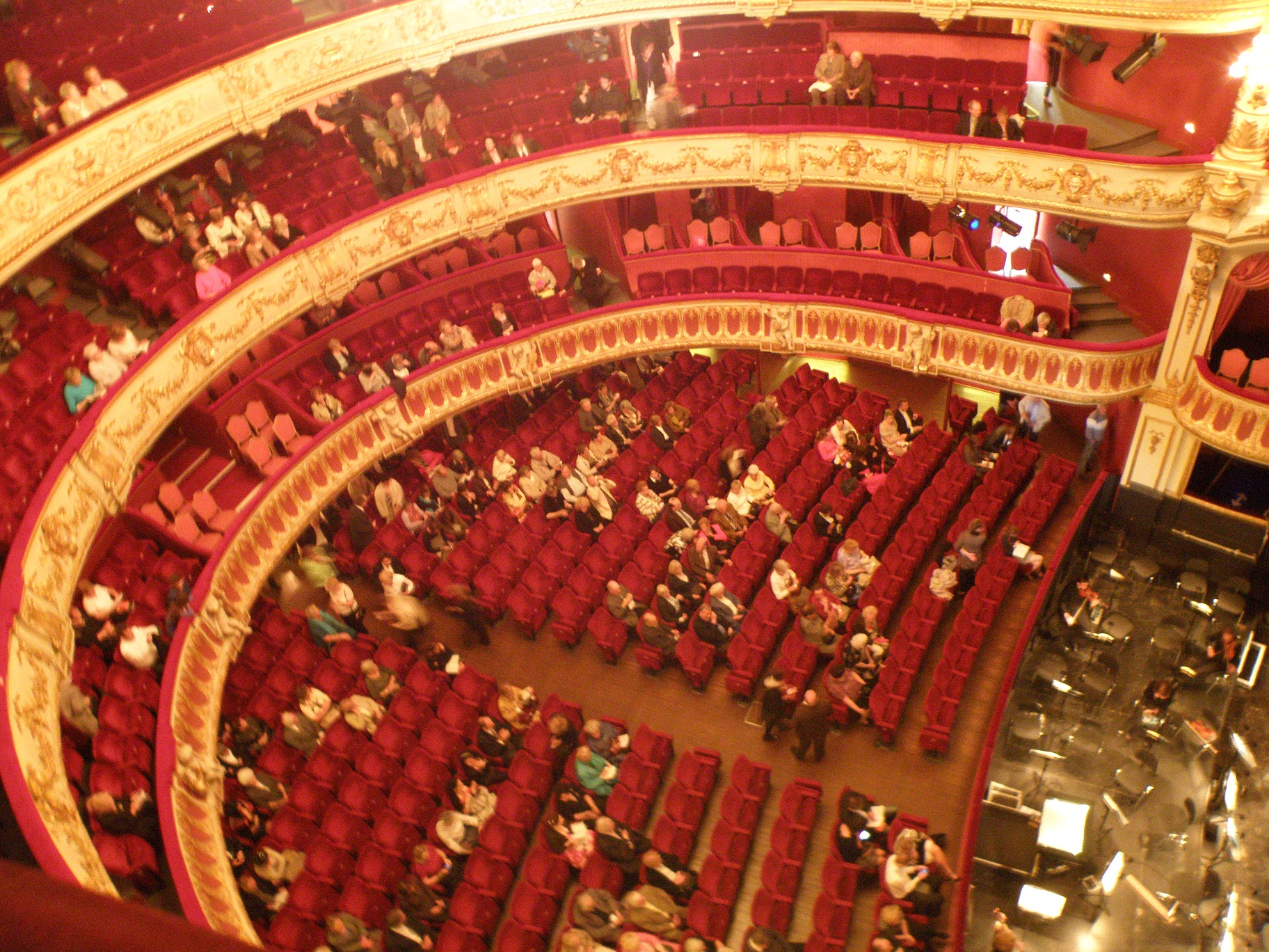 Strasbourg-Oper-Halle